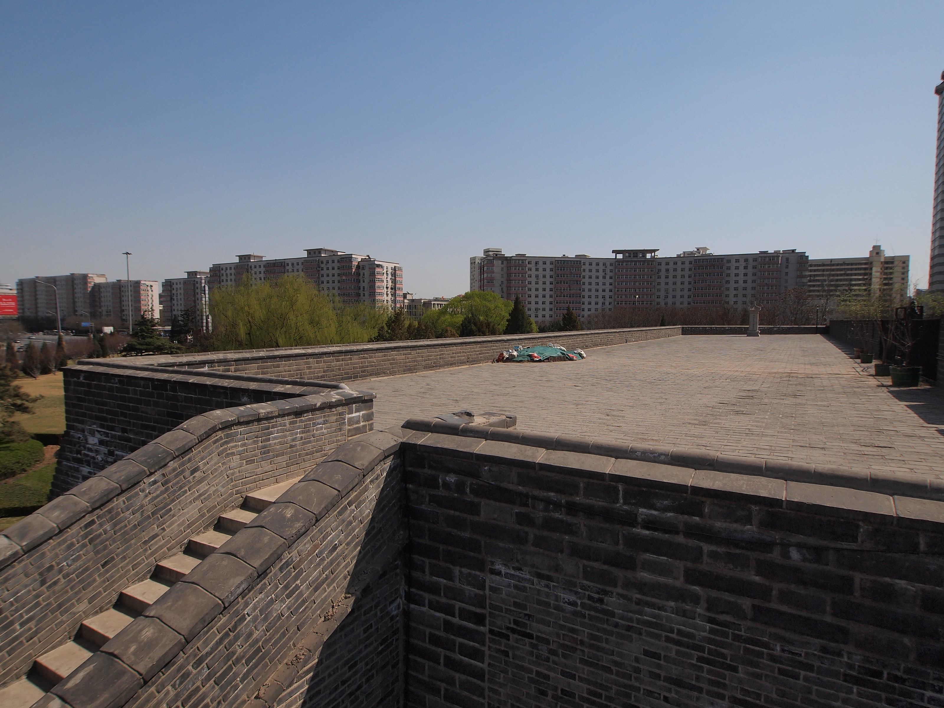 明北京城城墙遗迹 - Ming Dynasty Beijing Wall Relics - 2012.04